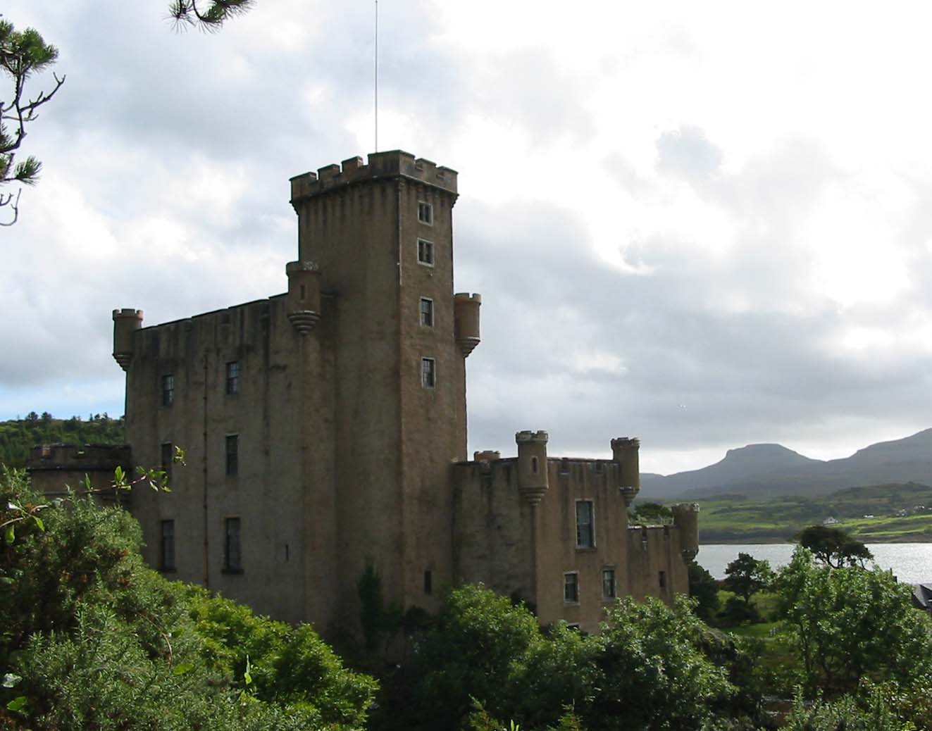 Dunvegan Castle on the Isle of Skye, from the gardens.